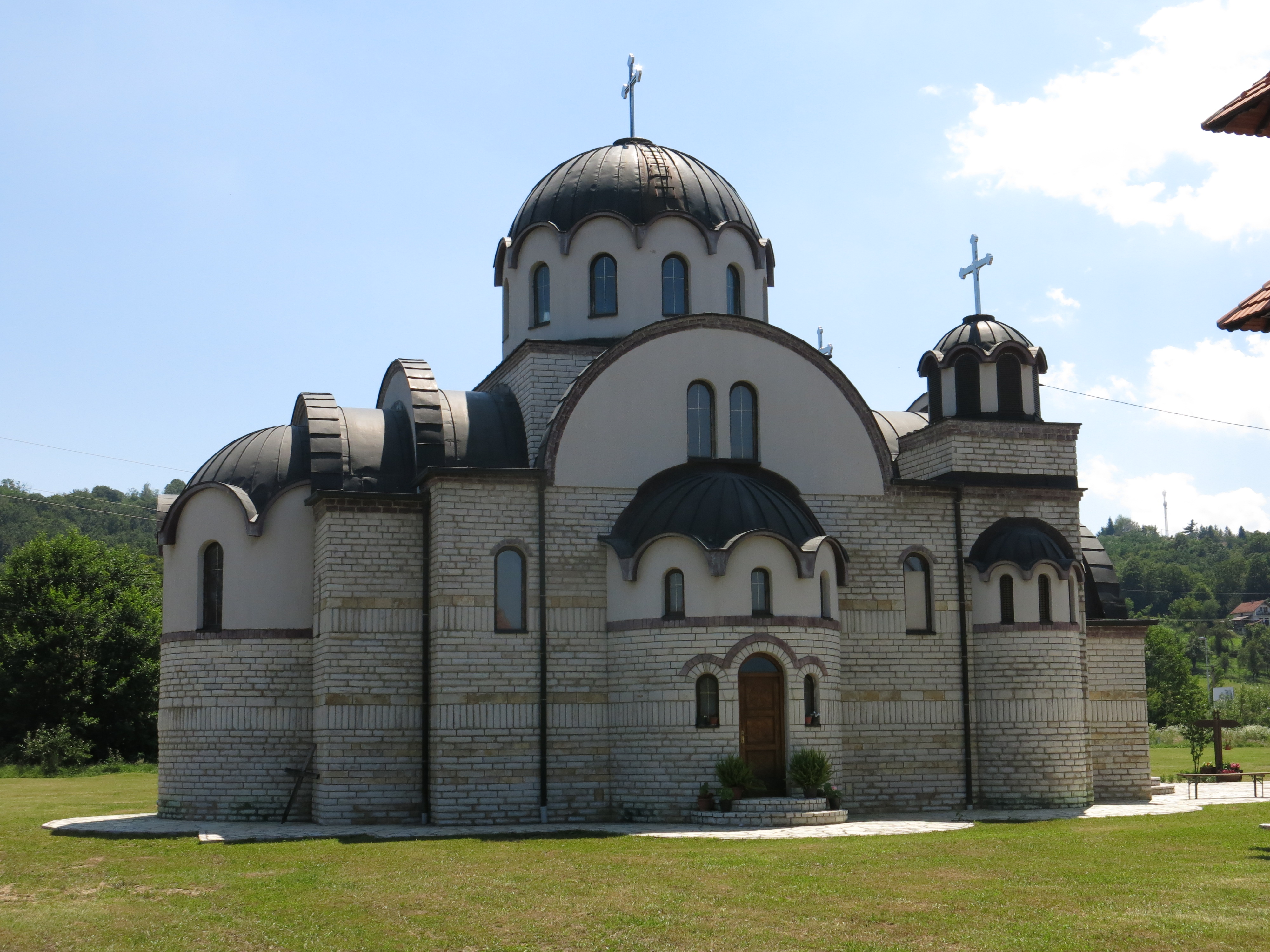 Rakari, Church of Ognjena Marija, Gornja Toplica